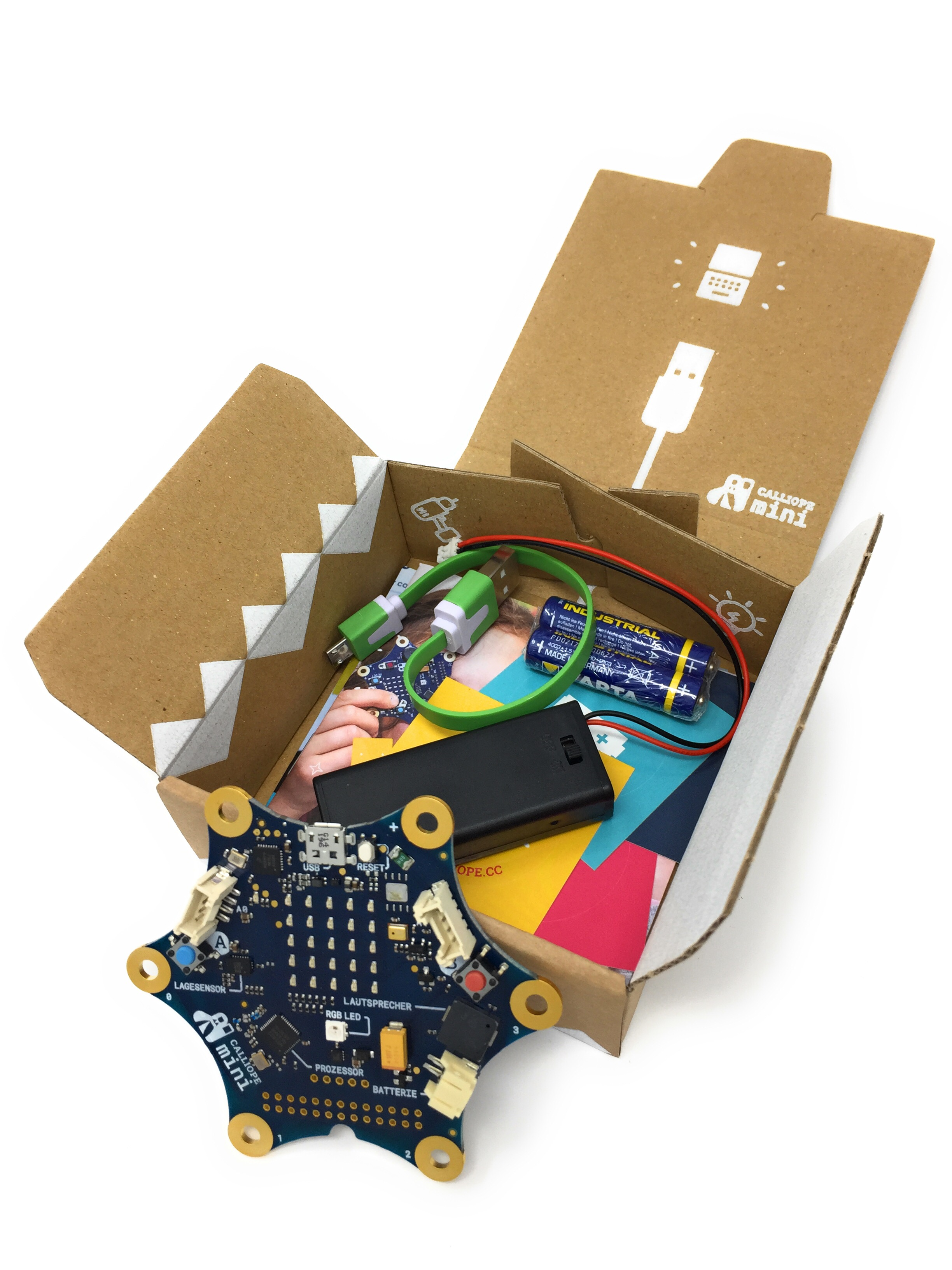 Calliope mini educational computer with box